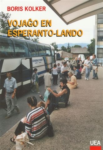 Subject: RE: Permission for Image:VojaghoKovrilo.jpg I hereby assert that I am the creator and/or sole owner of the exclusive copyright of WORK Image:VojaghoKovrilo.jpg. I agree to publish that work under the free license LICENSE [Public Domain]. I acknowledge that I grant anyone the right to use the work in a commercial product, and to modify it according to their needs. I am aware that I always retain copyright of my work, and retain the right to be attributed in accordance with the license chosen. Modifications others make to the work will not be attributed to me. I am aware that the free license only concerns copyright, and I reserve the option to take action against anyone who uses this work in a libelous way, or in violation of personality rights, trademark restrictions, etc. I acknowledge that I cannot withdraw this agreement, and that the image may or may not be kept permanently on a Wikimedia project. DATE, NAME OF THE COPYRIGHT HOLDER 25 March 2007 Boris Kolker Original Message----- From: Boris Kolker [1] Sent: Sunday, March 25, 2007 1:46 PM To: Cc: Osmo Buller; Roy McCoy Subject: Permission for Image:VojaghoKovrilo.jpg I confirm that UEA (Universal Esperanto Association) as publisher of this my book "Vojagho en Esperanto-lando" willingly accepts and even desires that the photo appear in Wikipedia. PDF file of the Copyright page of this my book is attached. If you have questions, ask me or UEA General Director Osmo Buller: . Thanks --Boris Kolker